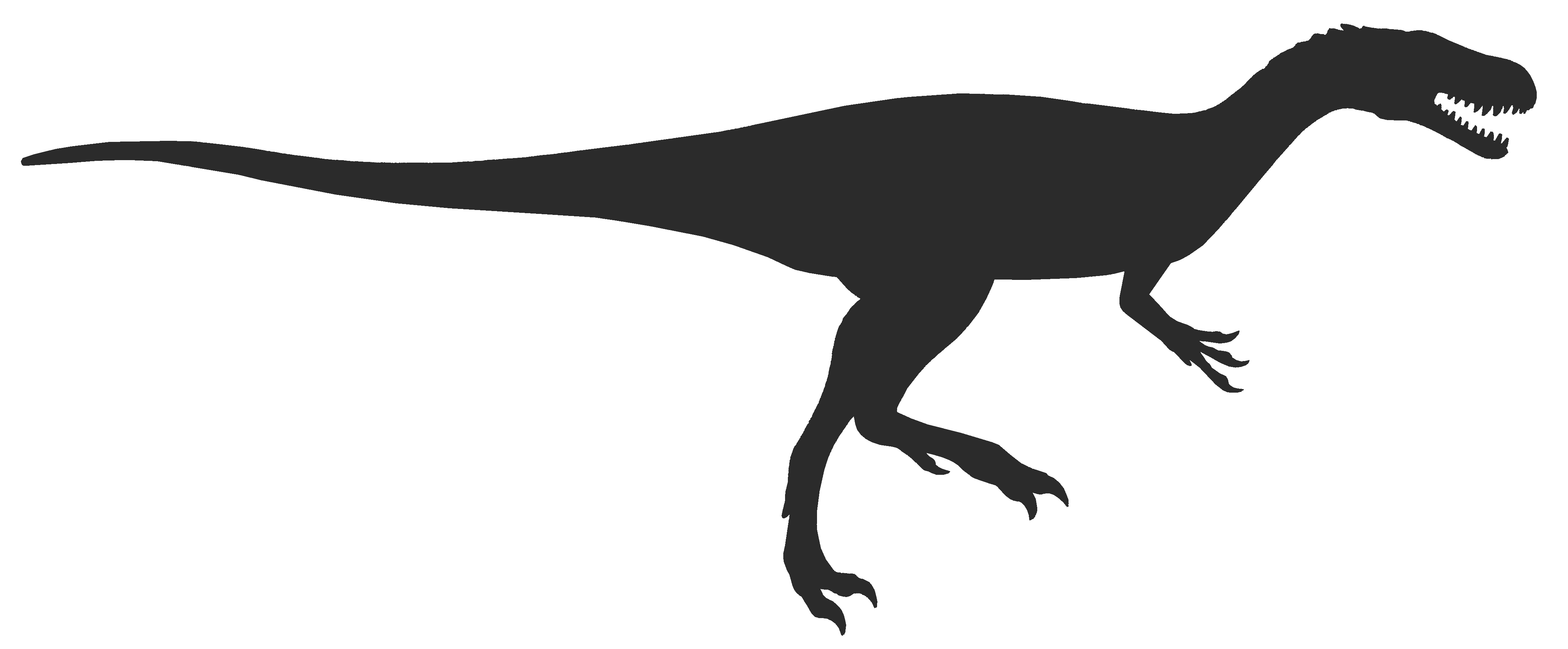 Silhouette of the theropod dinosaur Eodromaeus murphi.